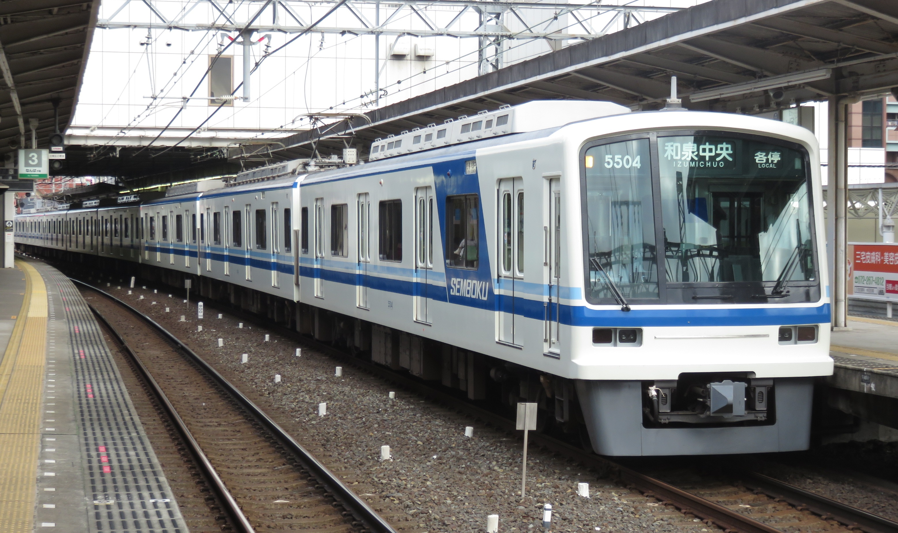 Refurbished Semboku Rapid Railway 5000 series eight-car EMU set 5503 at Nakamozu Station on an all-stations "Local" service